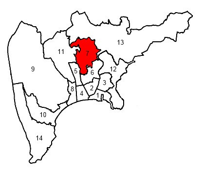 Location of canton of Nice-7 in the city of Nice, Alpes-Maritimes, France.